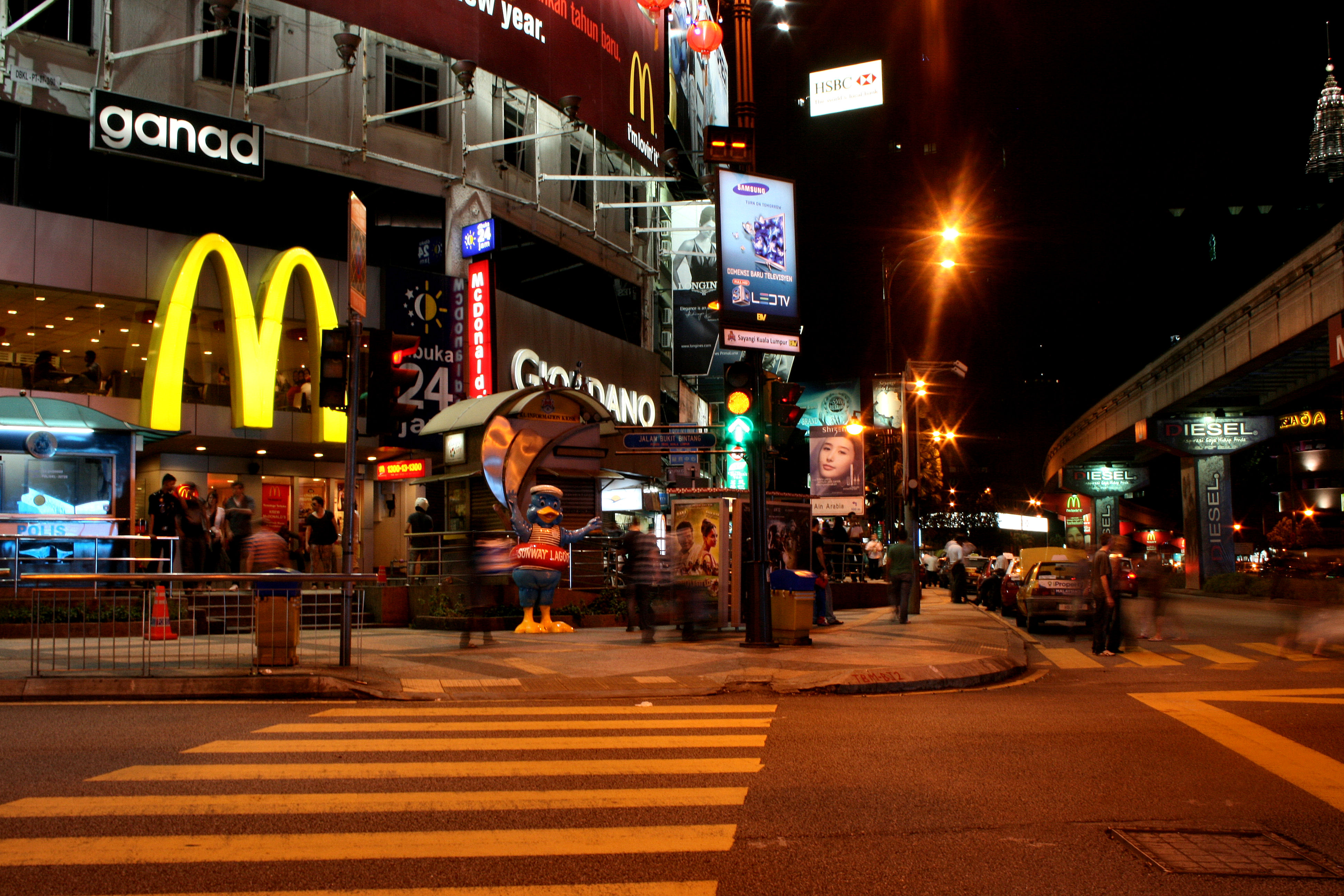 A view of Bukit Bintang, Kuala Lumpur in January 2011.